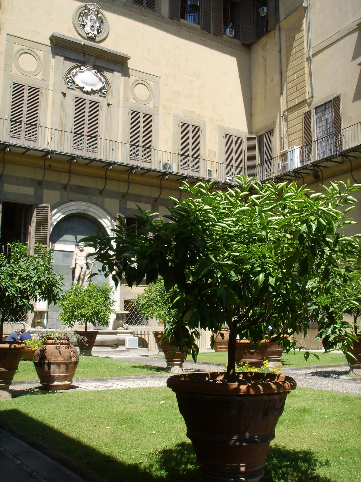 Courtyard garden with potted citrus — at the Palazzo Medici-Riccardi in Florence, Italy. Above the statue, the coat of arms of the House of Riccardi.